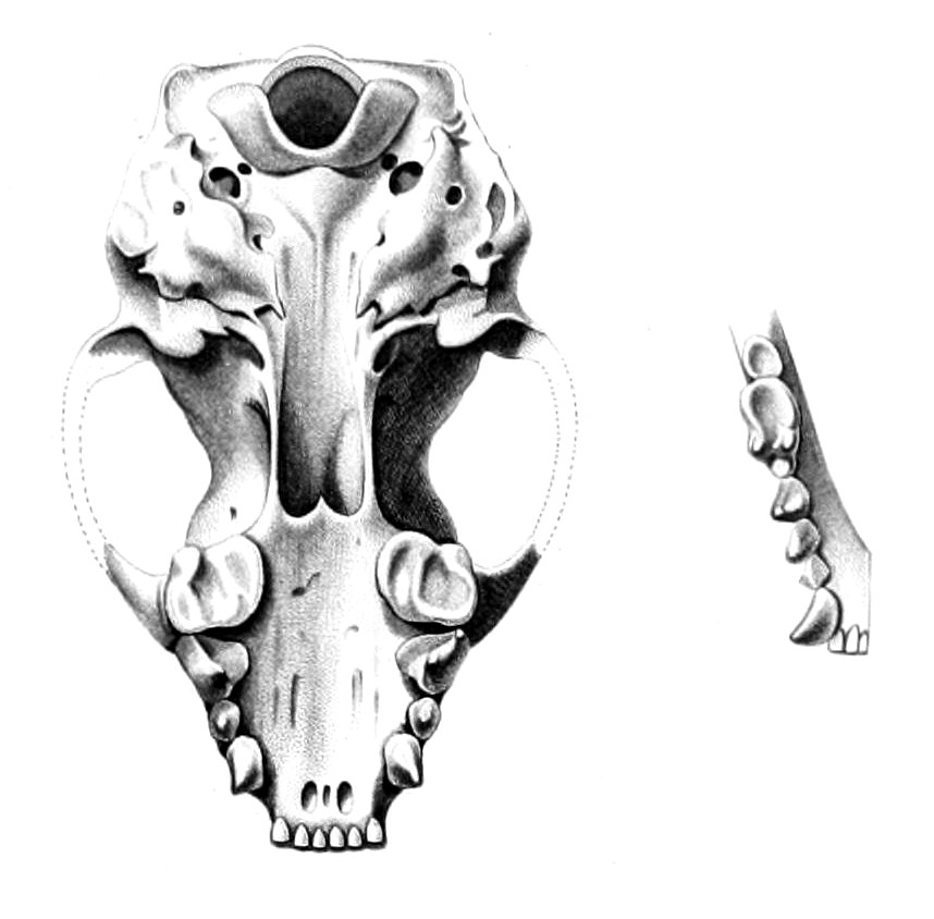 « Mephitis humboldtii » = Conepatus humboldtii (Humboldt's hog-nosed skunk) - skull